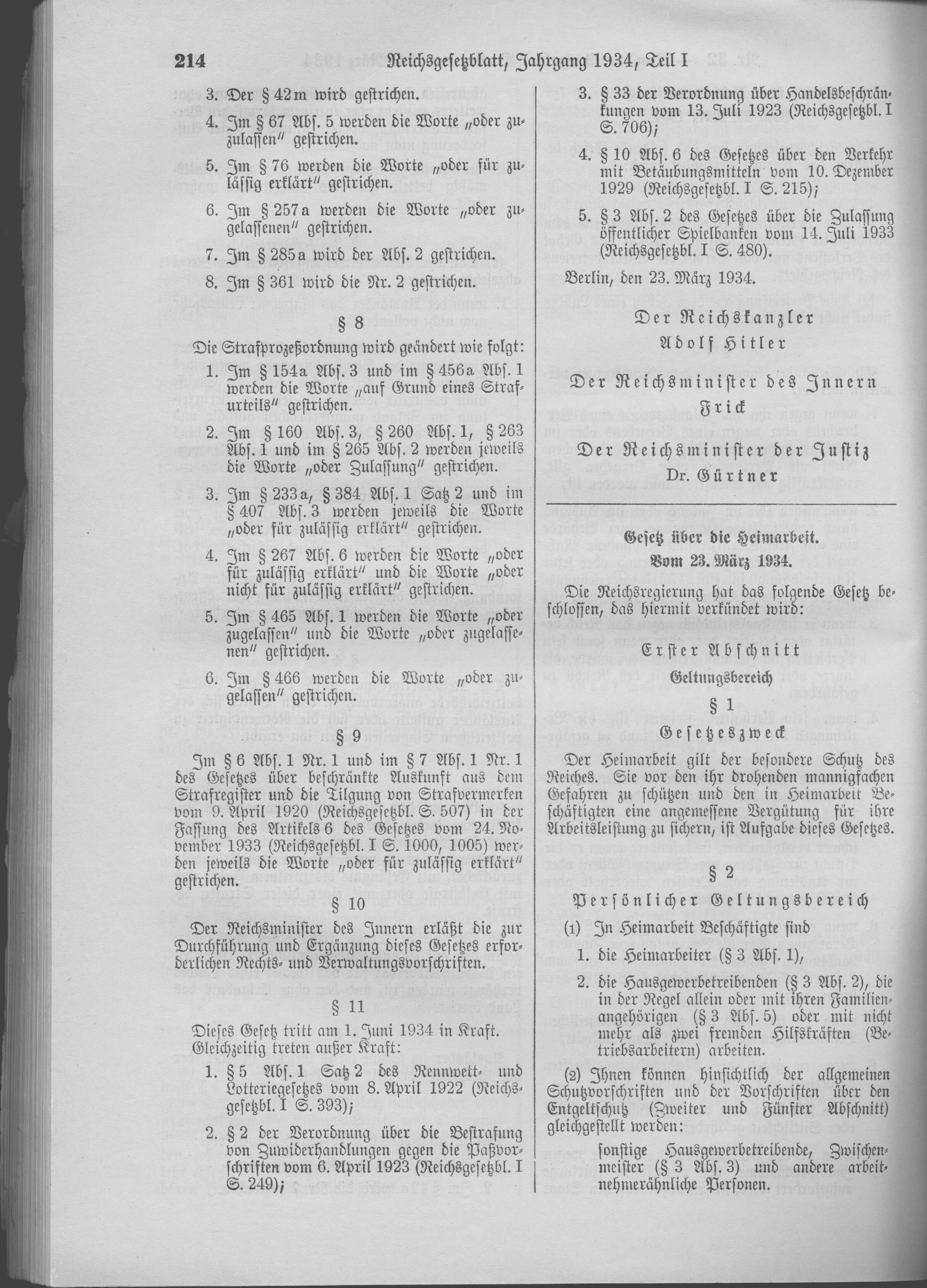 Scan from the Imperial Law Gazette of Germany, 1934, part 1